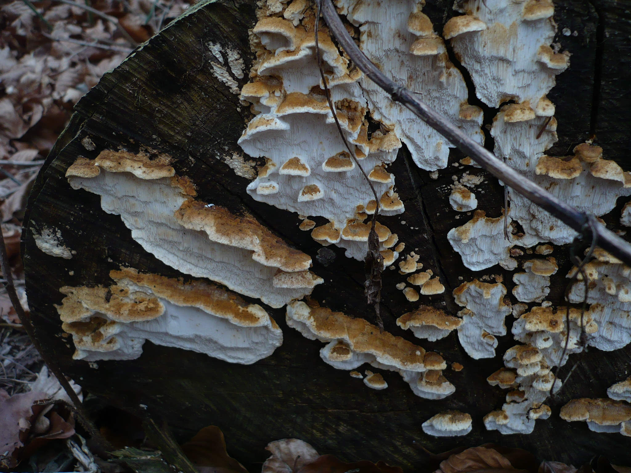 The fungus Antrodia serialis (Fries) Donk. Photographed in Dumpfenthal, Eggendorf bei H., Bezirk Hartberg, Styria, Austria.